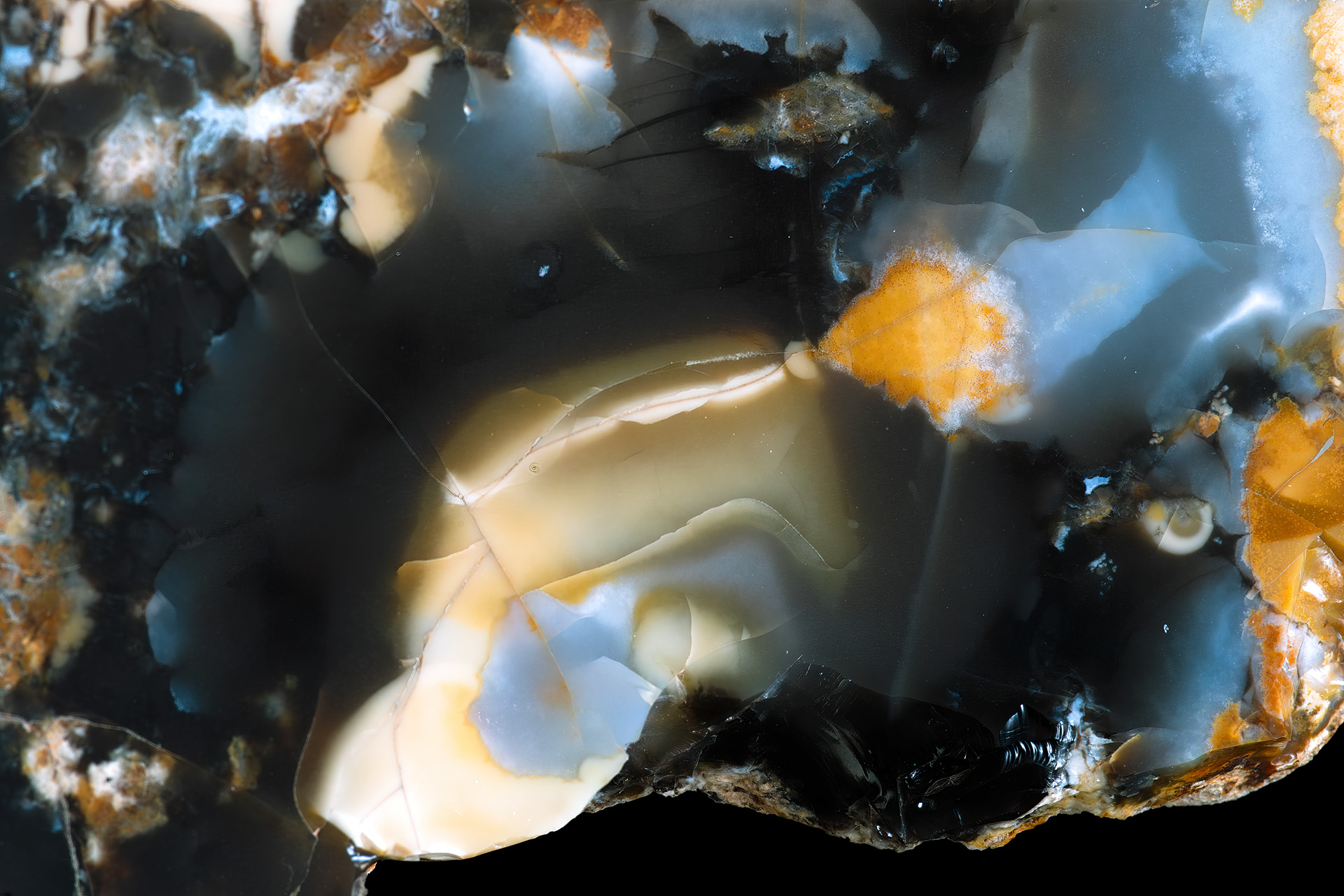 Black opal (common, non-opalescent), polished. Locality: Bohouskovice near Kremze, Czech Republic. Crop of 6×4 centimeters.